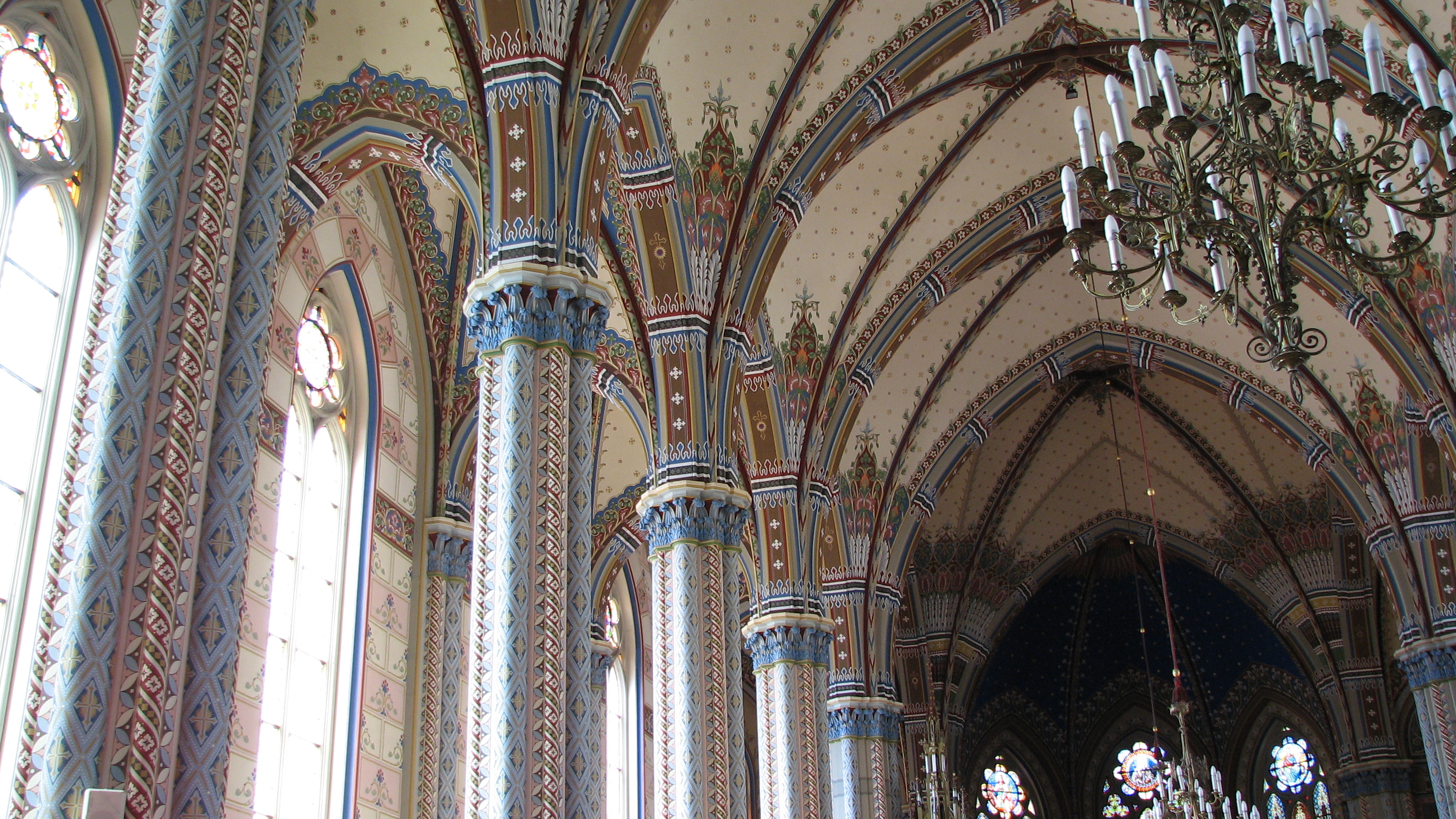 The interior of Sacred Heart Church in Kőszeg, Hungary